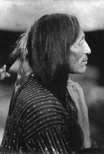 Chief Iron Tail, Informal, Profile